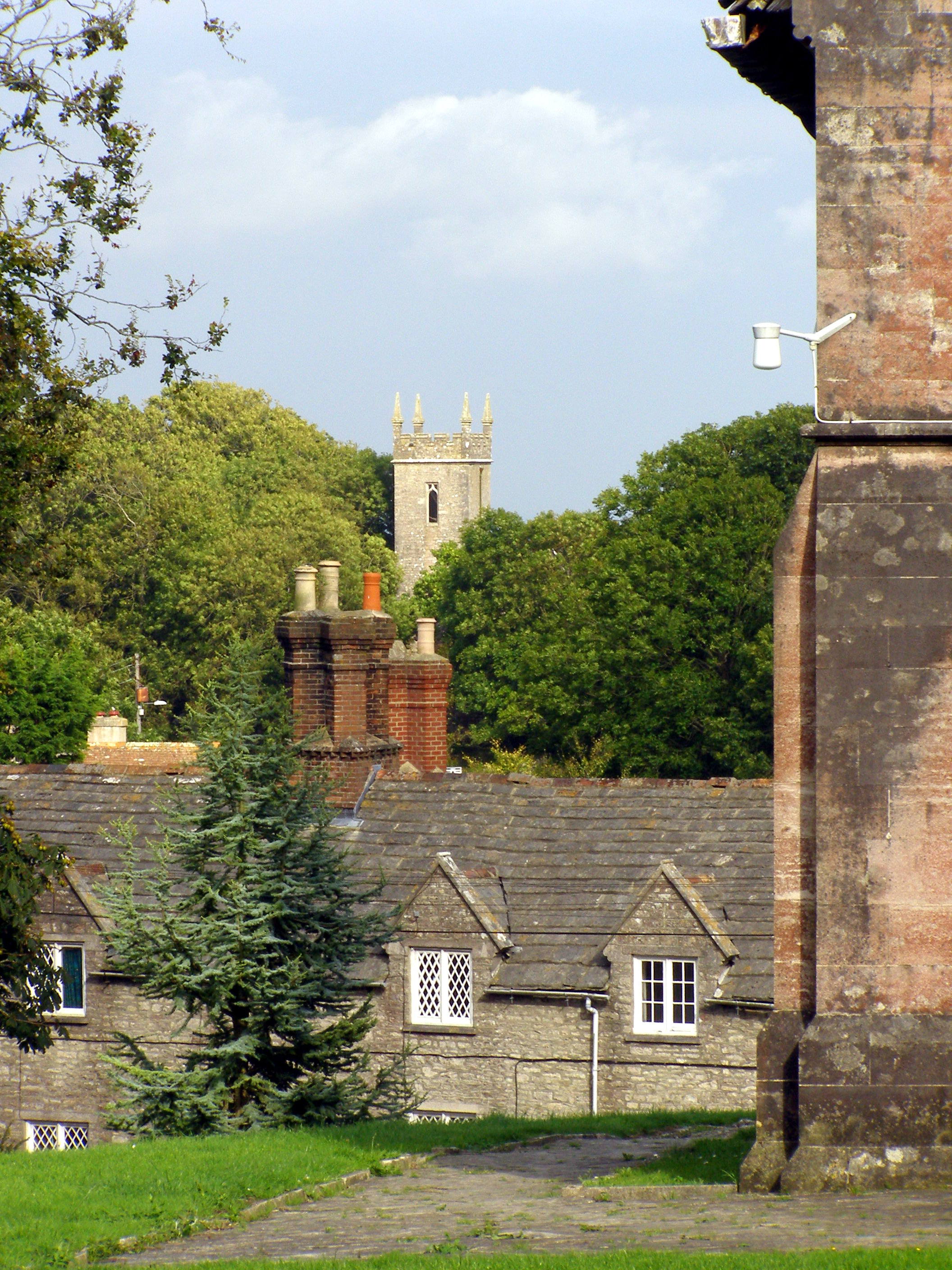 View from the churchyard of St James' parish church, Kingston, Purbeck, Dorset, built in 1880, across rooftops to the tower of the former St James' parish church built in 1833